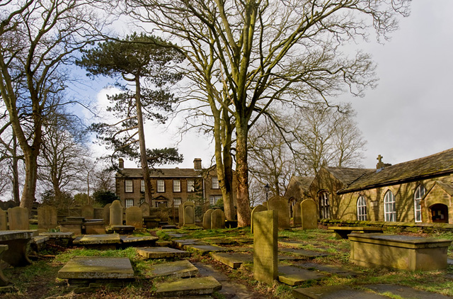 The Bronte Parsonage Haworth Parsonage was built in 1778-9. On the 20th April 1820, Patrick Bronte, his wife Maria and their six children, moved to the Parsonage at Haworth. After Patrick Bronte's death in 1861, his successor, the Revd. John Wade, added the gable wing on to the right of the Parsonage.